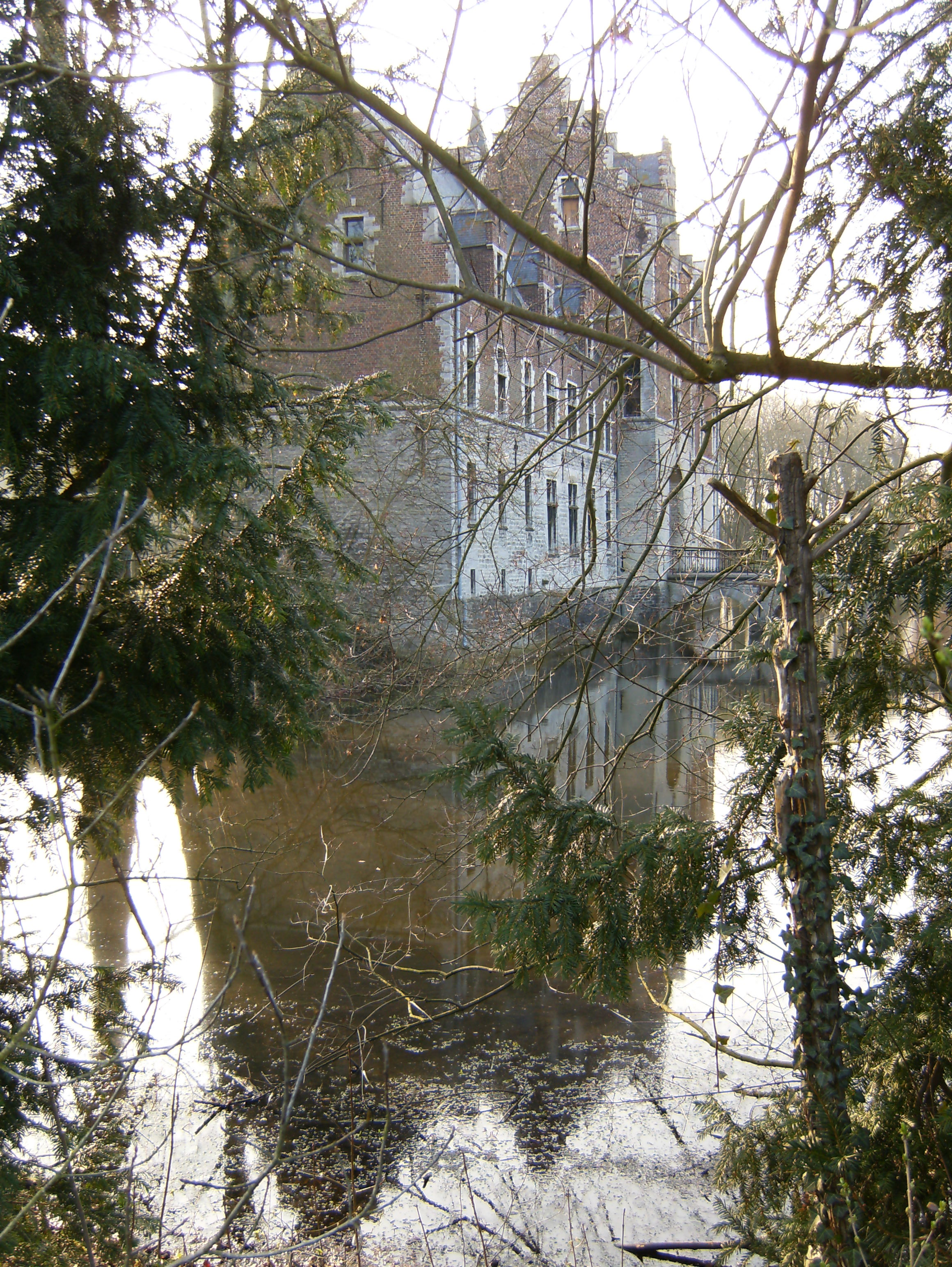 The Rubenskasteel (Castle of Rubens), also known as Het Steen (The Rock) is situated on the former Flemish Brabant commune of Elewijt, now part of Zemst. Peter Paul Rubens lived there from 1635 till his death in 1640